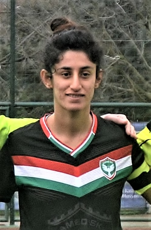 Güzide Alçu of Amed S.K. in the 2017-18 Turkish Women's First Football League.